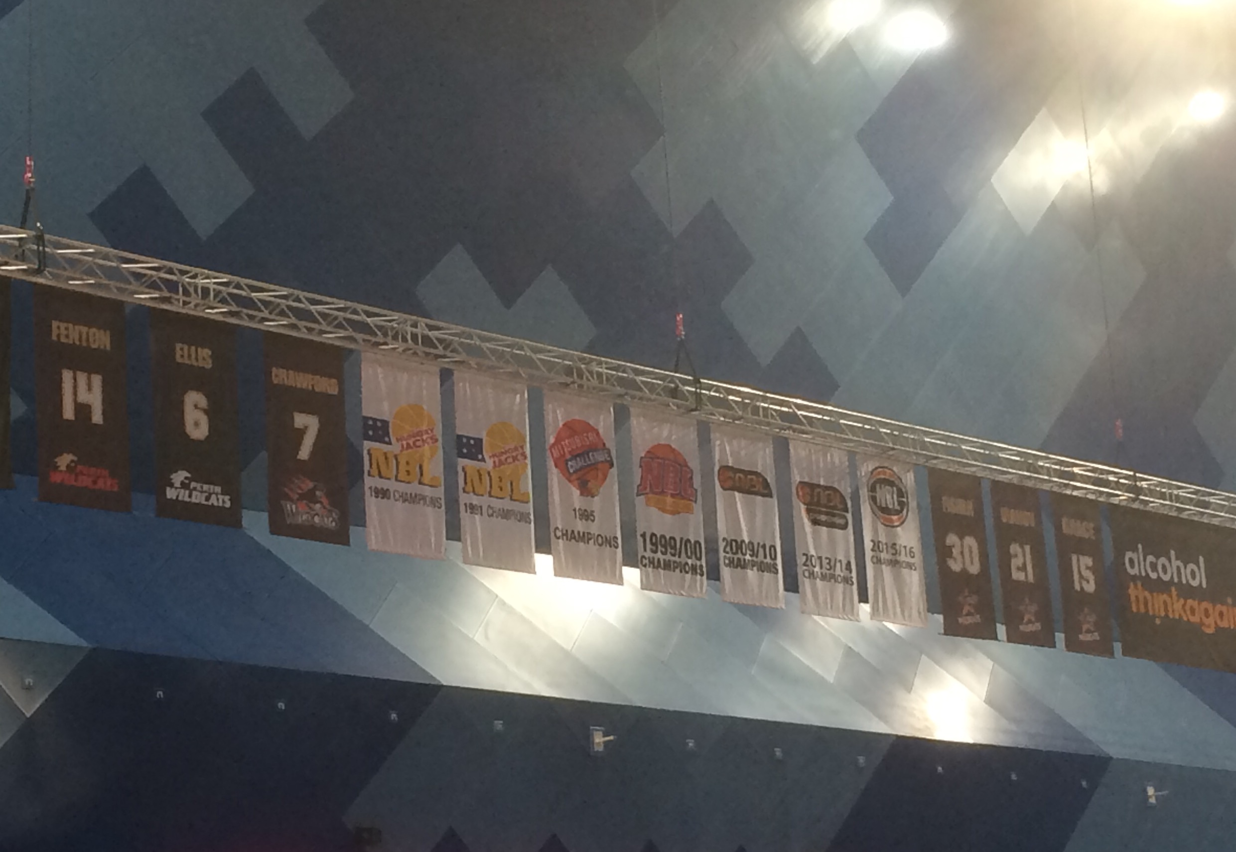 Perth Wildcats' championship banners and retired numbers